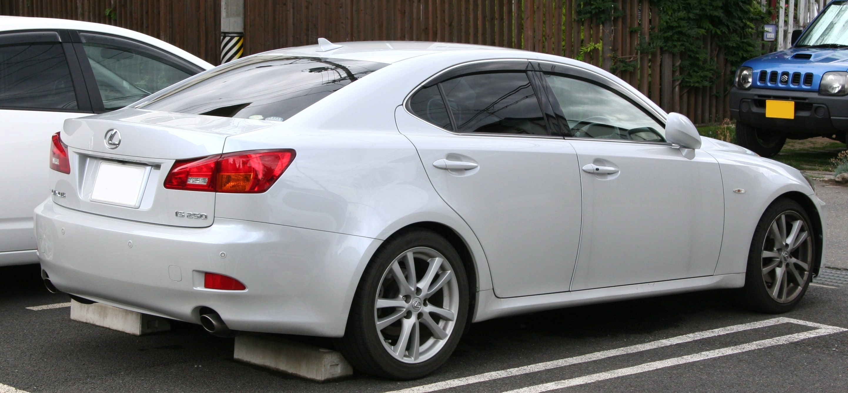 Lexus IS250